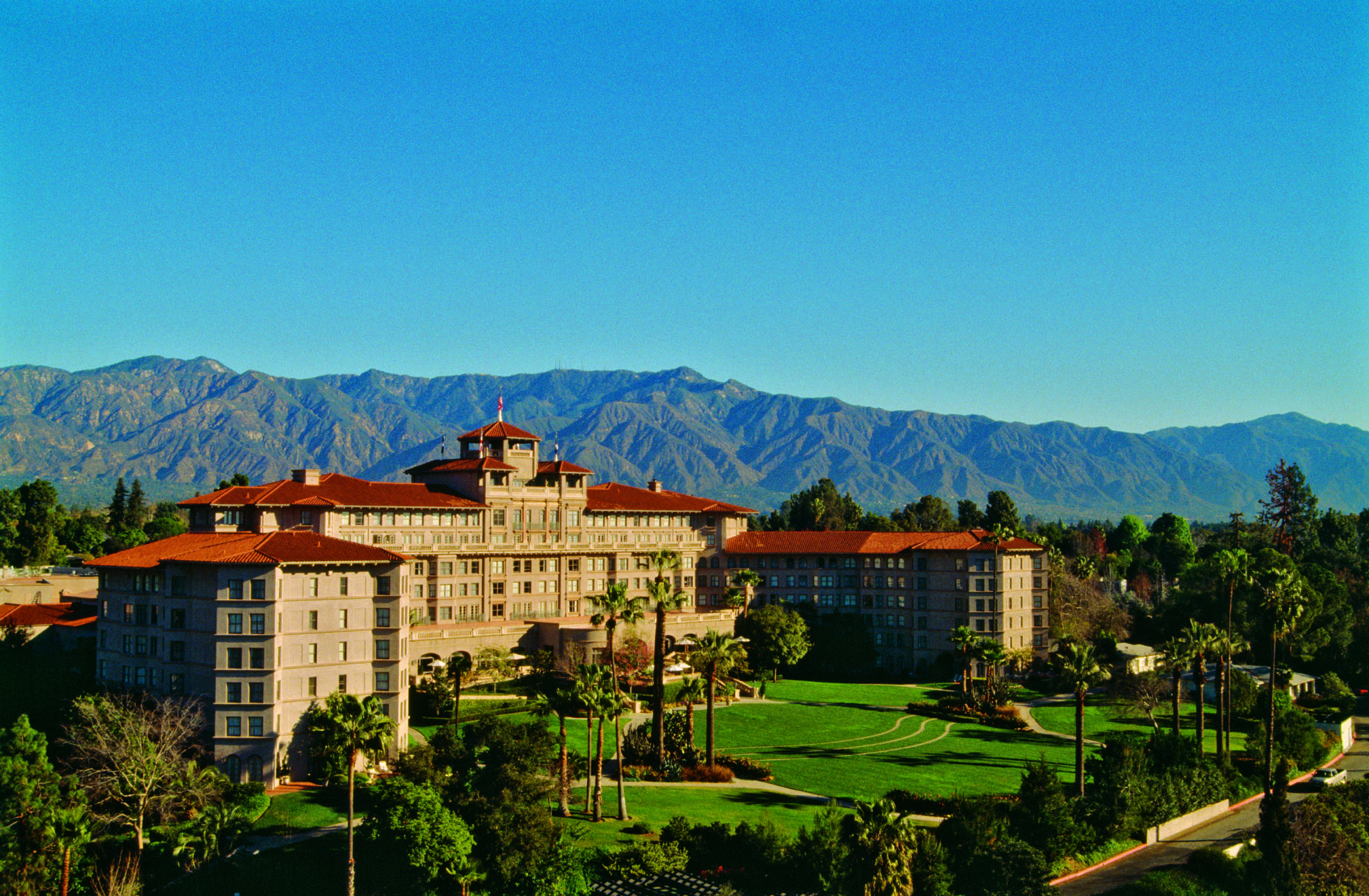 The Langham Huntington Pasadena, Los Angeles